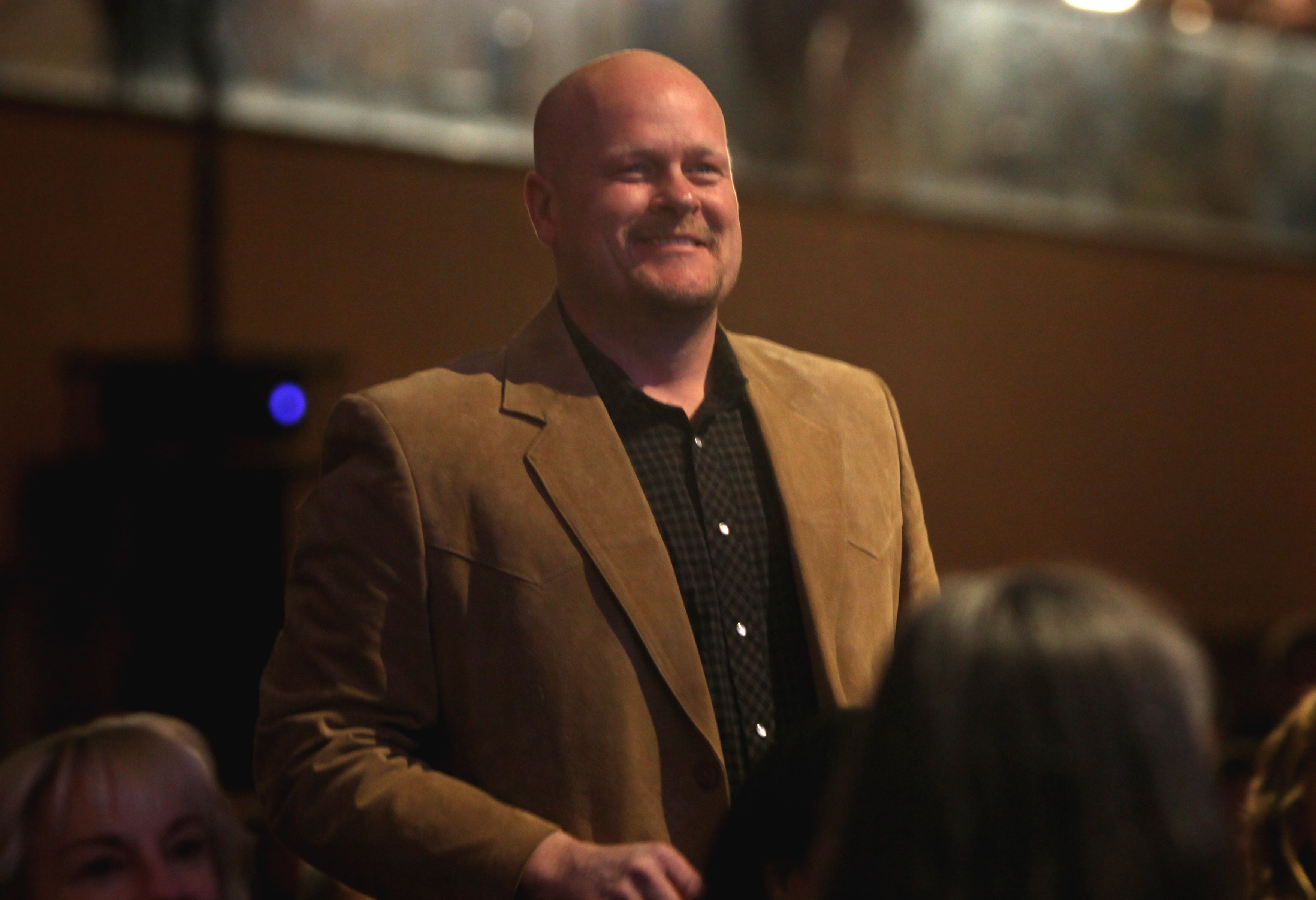 Joe the Plumber at an event in Washington, D.C.